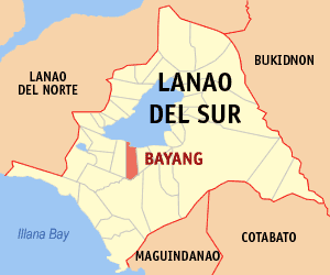 Map of the Lanao del Sur showing the location of Bayang